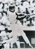 Los Angeles Dodgers' outfielder John Shelby hitting a pitch during a Major League Baseball game in 1988.